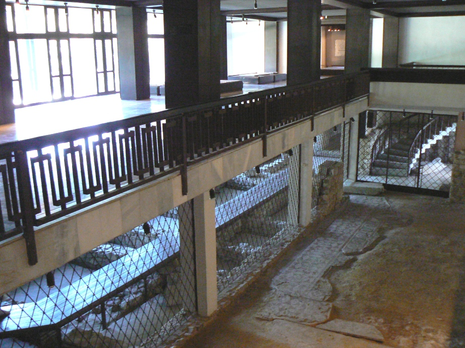 Devnya Museum of Mosaicsq Bulgaria